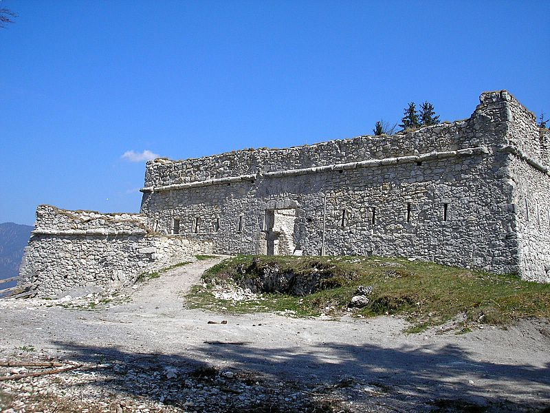 Fort Claudia (Hochschanz), Fortress Ehrenberg near Reutte (the Tyrol, Austria). Western side with the gate.